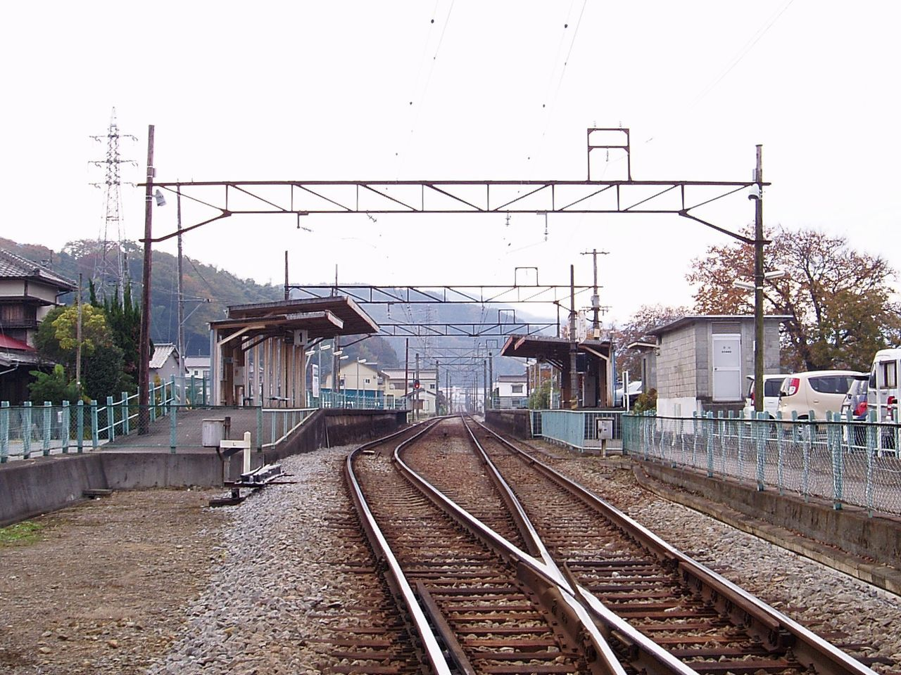 Isuhakone Railway Company, Makinoko Sta. 2007.11.26 Photo by Cassiopeia_sweet.